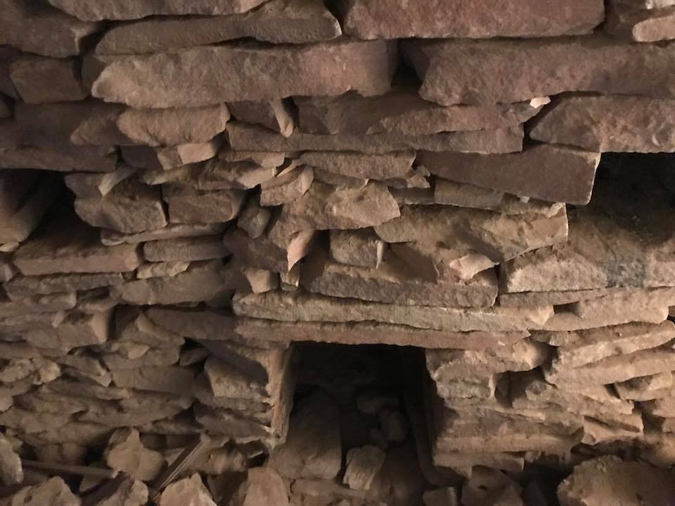 Inside the Apache Death Cave.in Two Guns, Arizona.